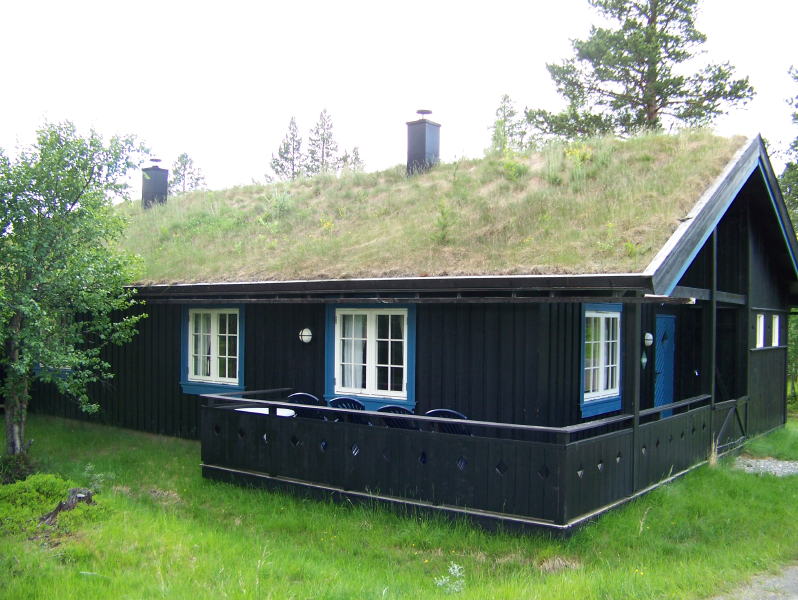 A turf roof (green roof) in Flam, Norway.